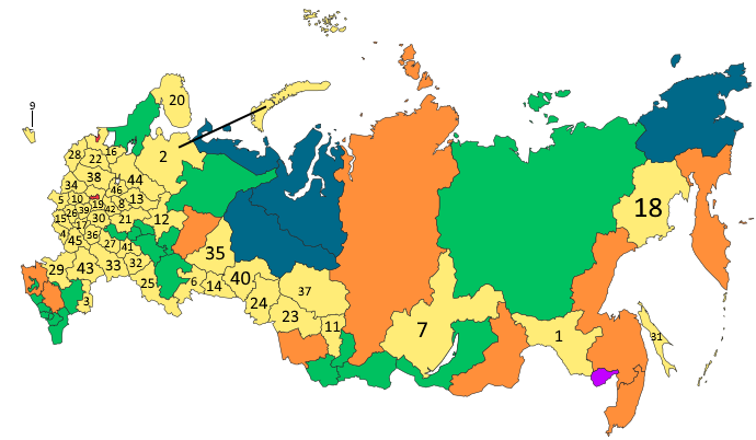 Numbered the oblasts on the map to be used on its corresponding page, map was adapted from User:Roman_Poulvas map of the russian federation